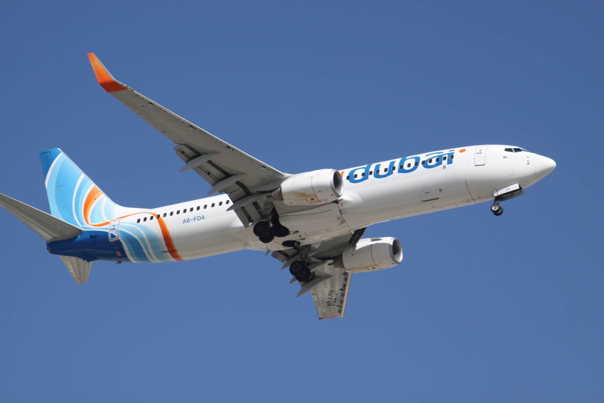 At Dubai International DXB